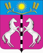 Coat of arms of Kanelovskaya